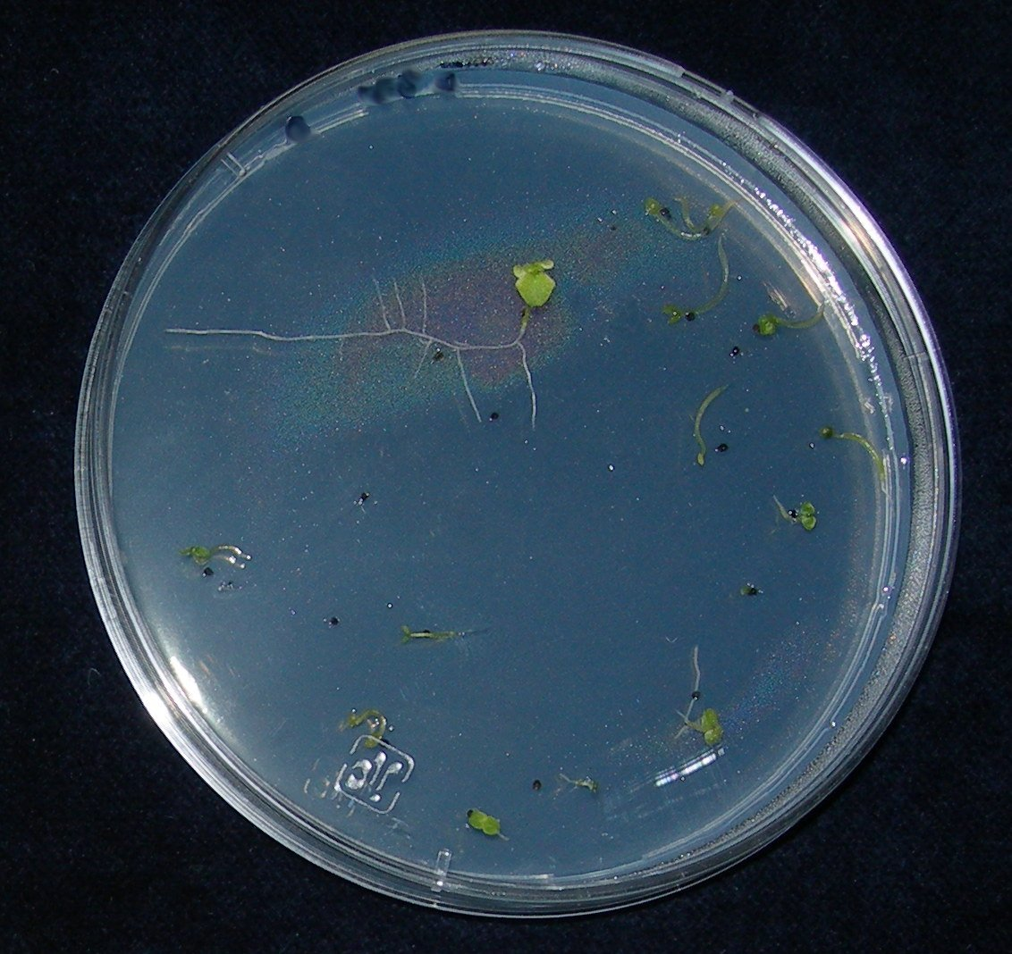 In vitro test of germination of a dicot; there are little plants and non viable seeds. The medium is a Murashige and Skoog without any hormone.